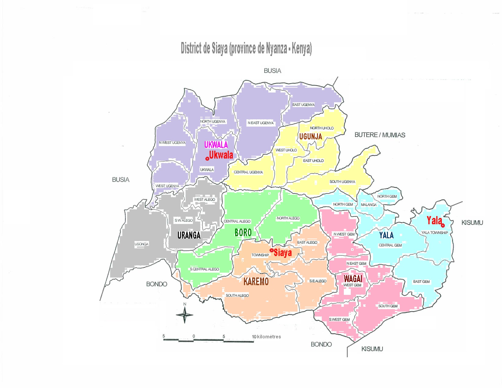 Siaya District. Valid map between 1998 and 2009